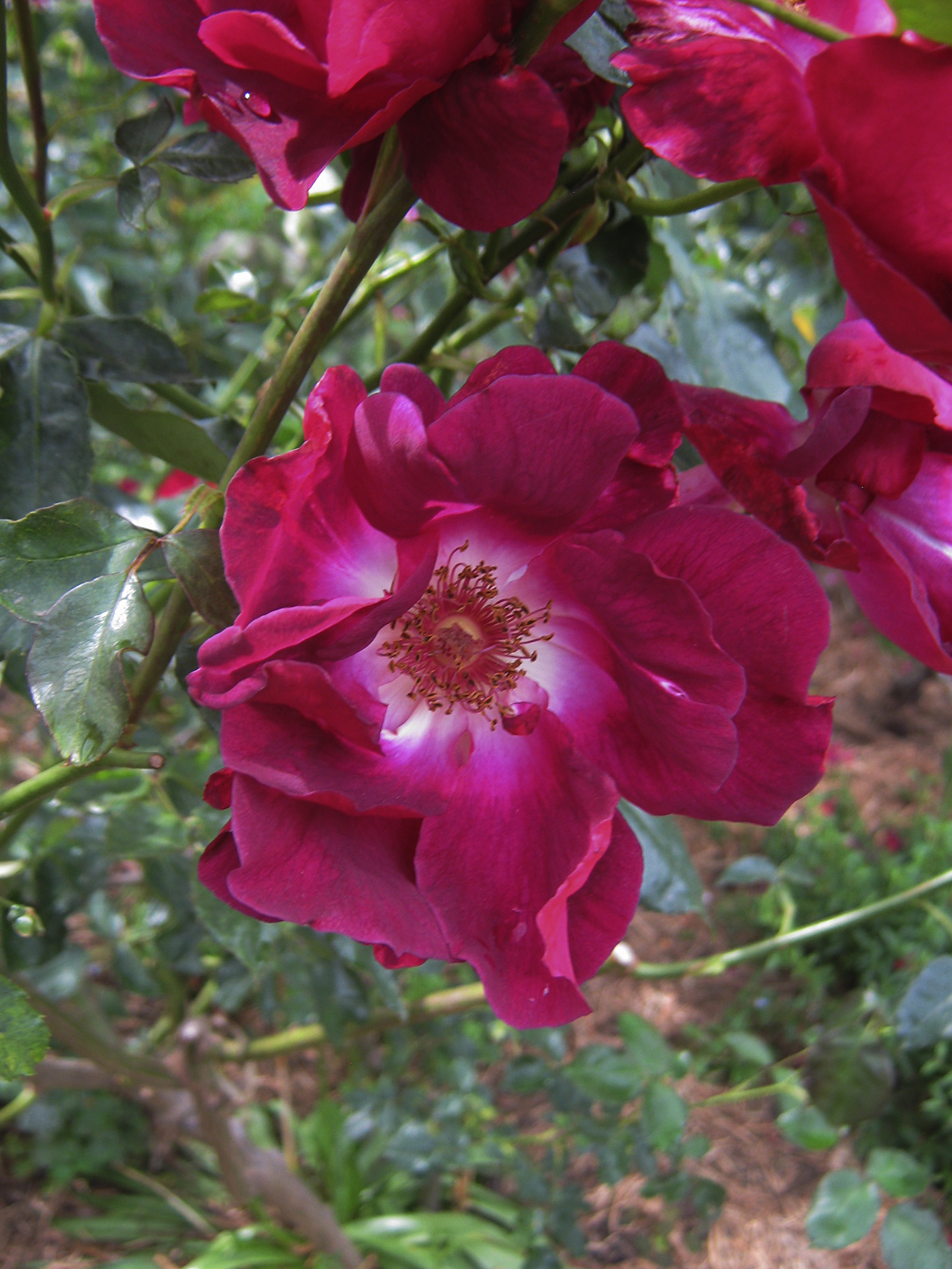 Rose 'Restless', Hybrid Tea by Alister Clark 1938; Photographed in the Alister Clark Memorial Rose Garden, Bulla, Victoria